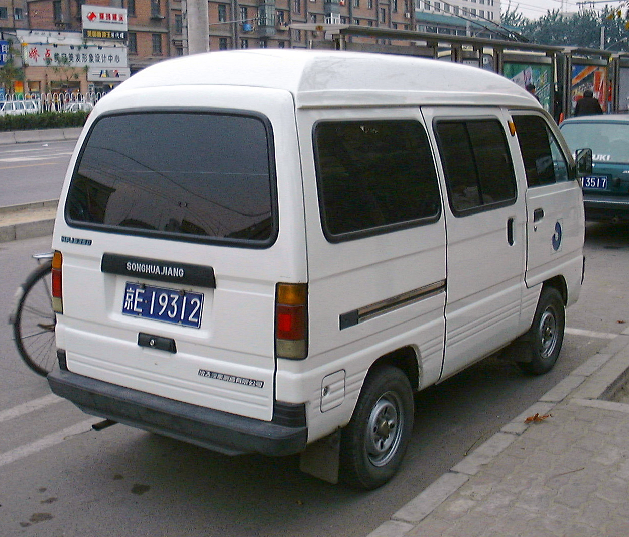 Typical Chinese minivan - a Hafei Songhuajiang HFJ6350 - in Beijing, 1999